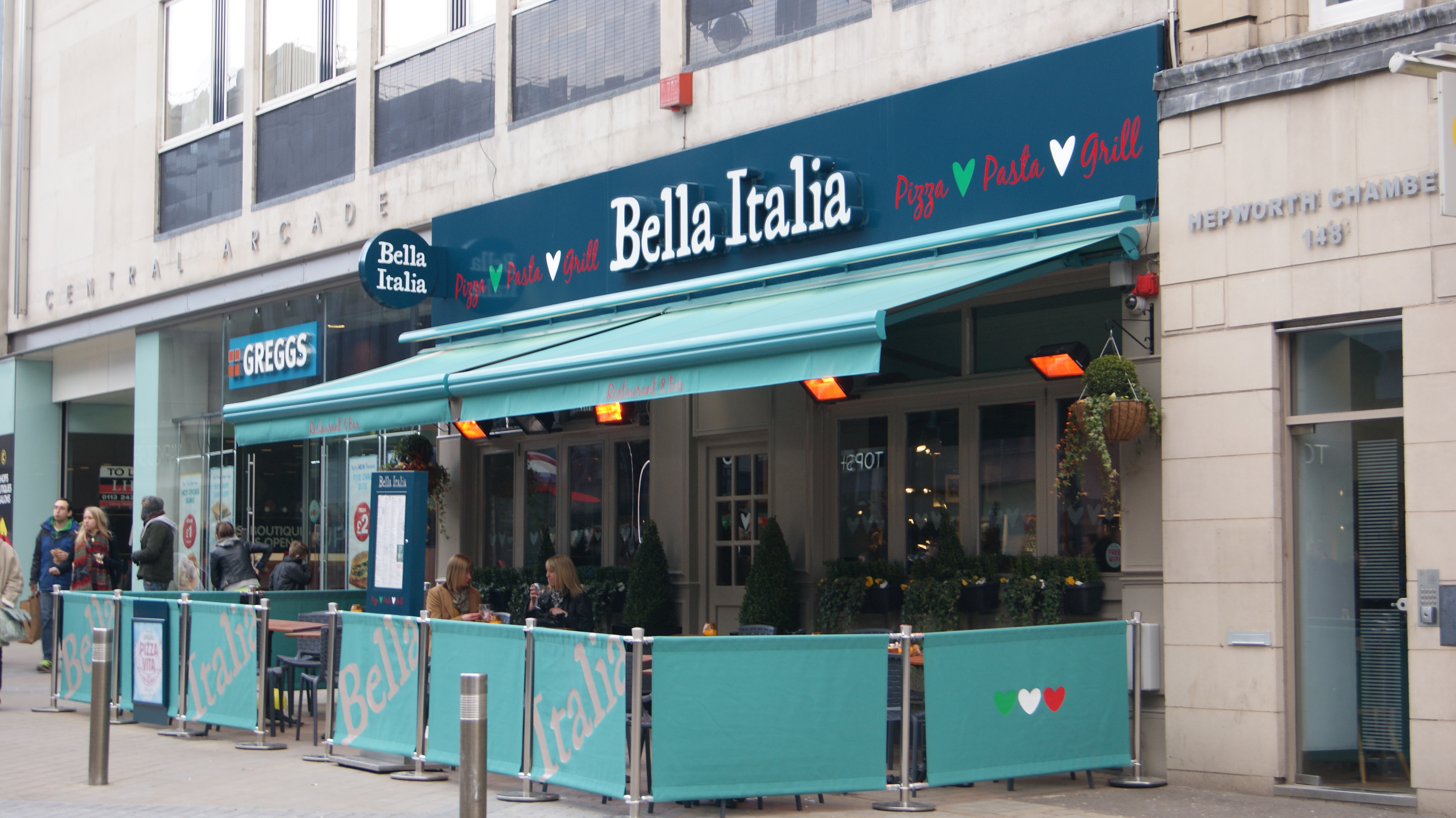 Bella Italia, Briggate, Leeds, West Yorkshire. Taken on the afternoon of Saturday the 30th of March 2013.